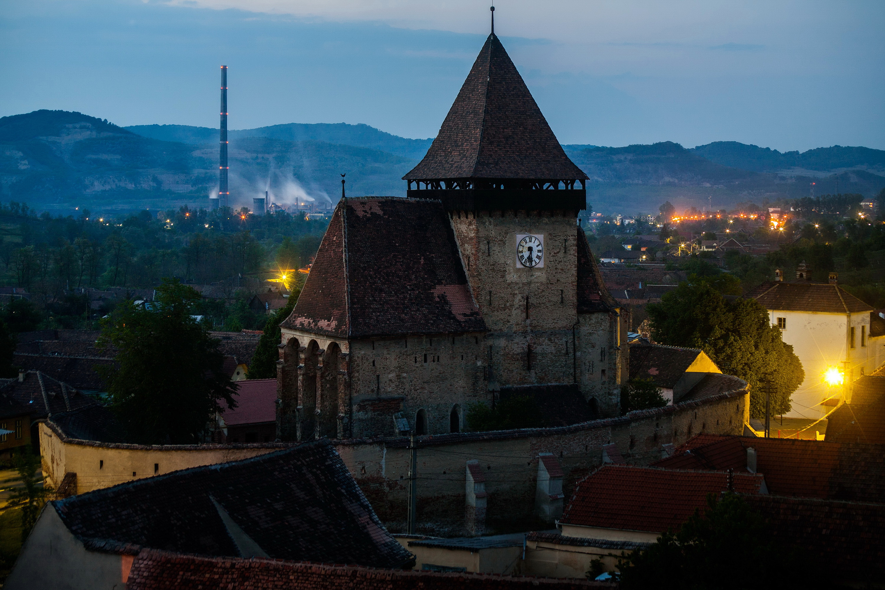 Biserica fortificata din Axente Sever